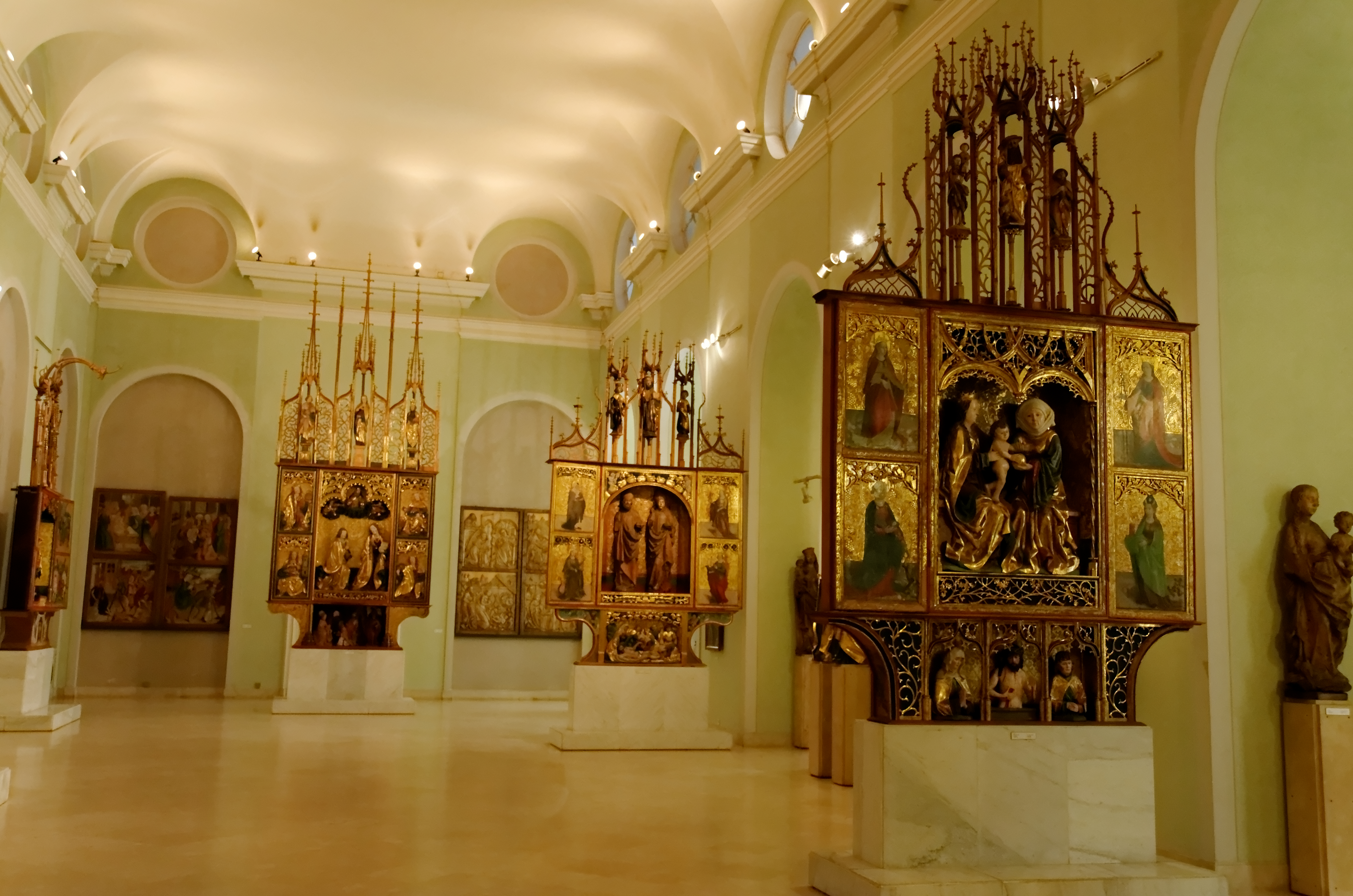 Retables in Hungarian National Gallery